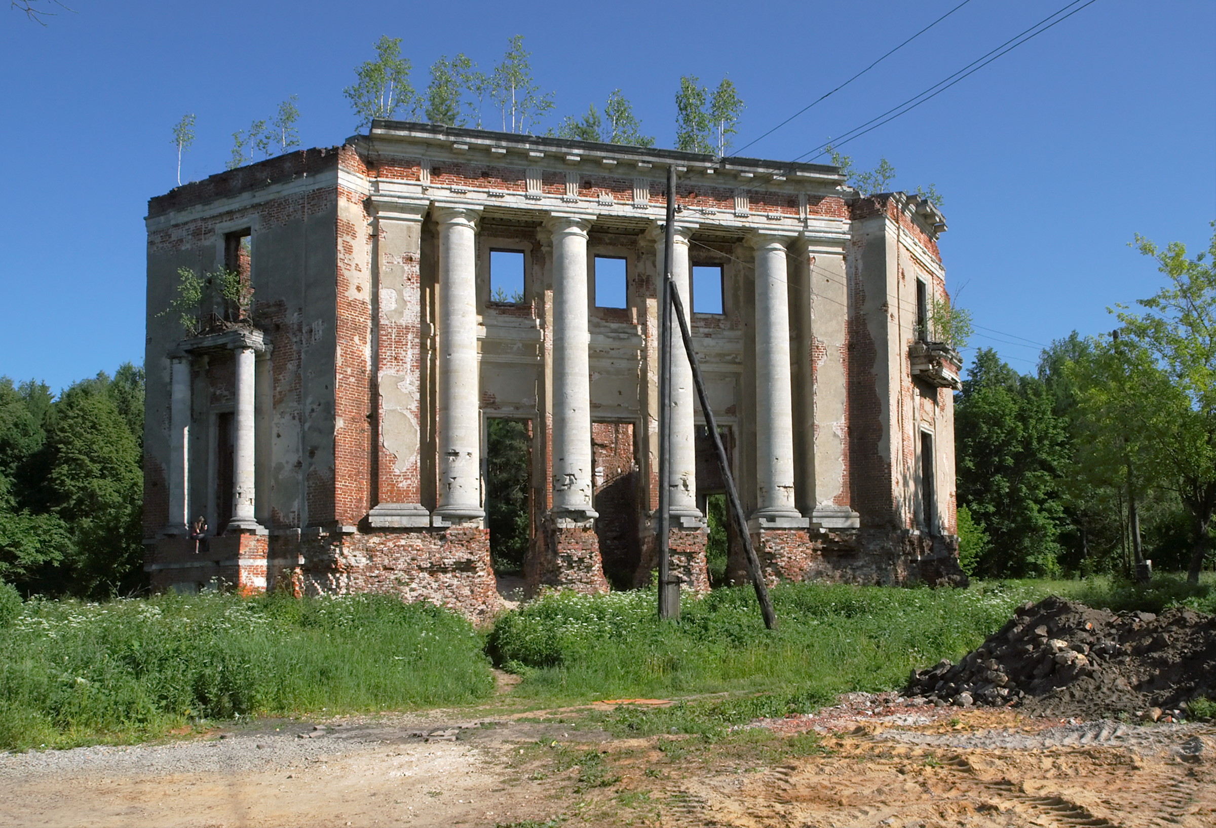 Remains of the main house of the Petrovskoye-Alabino manor. NW facade.